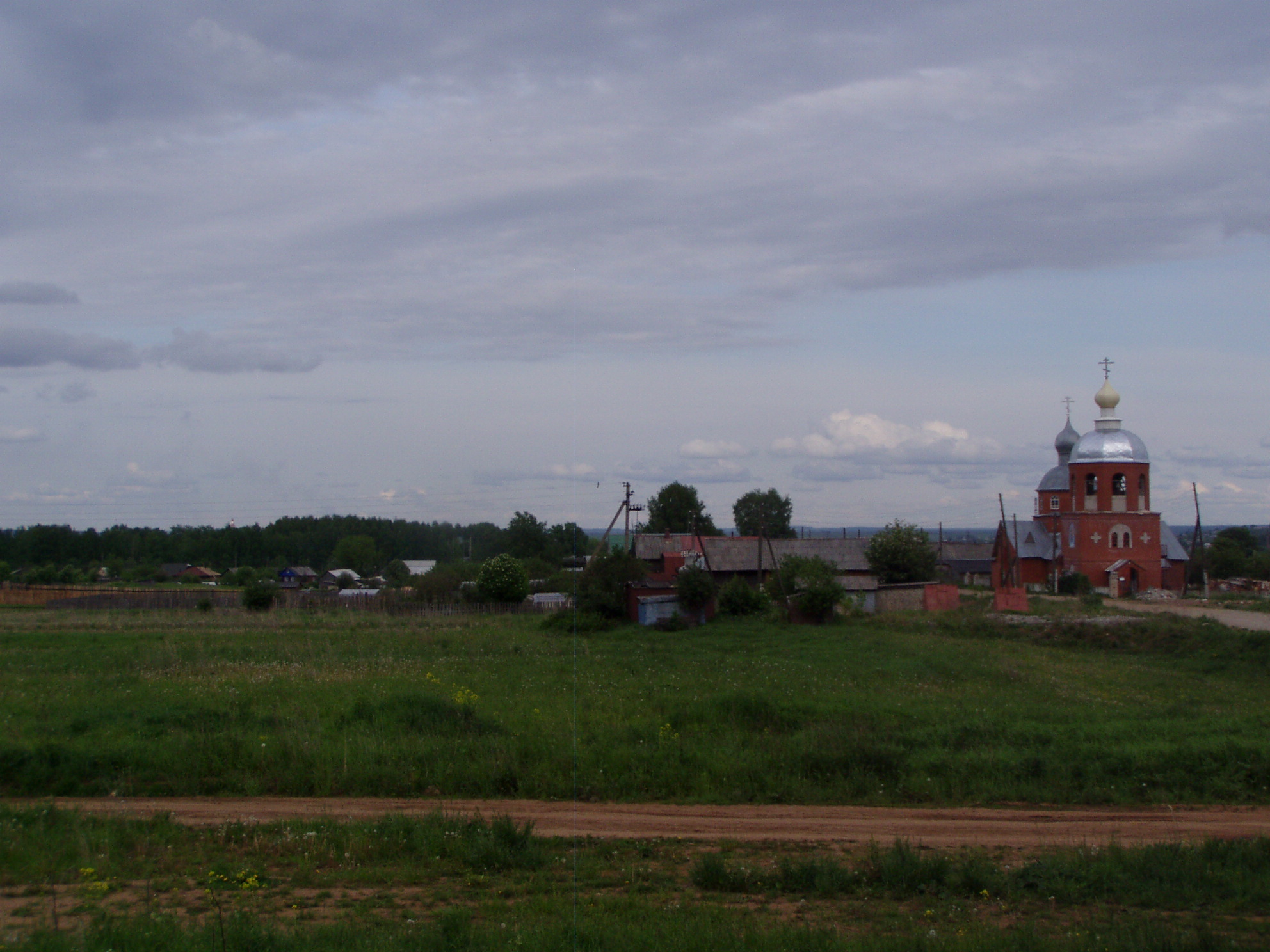 Solomintsy village in Kirov, Russia